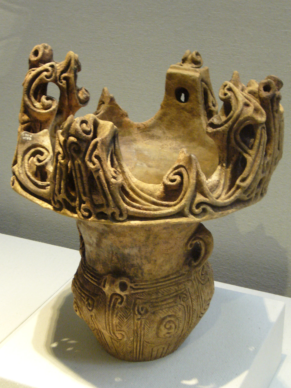 Jomon vessel. 縄文土器 Middle Jomon (3000-2000 BCE). Crown formed vessel, Oukangata doki(王冠型土器). A variation of Kaen doki(Flame formed vessel). 縄文中期（紀元前3000-2000年） 王冠型土器、火焔土器のバリエーション。 Provenanced at the remains of Doujitte,Niigata. 新潟県津南町道尻手遺跡出土 Photograph taken by Commonsenses in Dec. 2005 Commonsenses